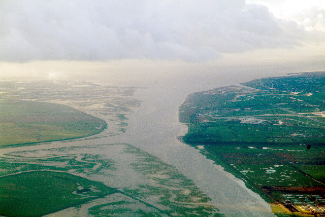 Ribble Estuary. Mouth of the Ribble south of Lytham St Annes, taken from plane coming in to land at Blackpool Airport